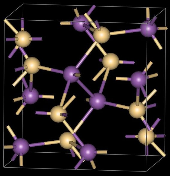 ZnSb structure (orthorhombic). Journal = INORGANIC MATERIALS, TRANSLATED FROM IZVESTIYA AKADEMII NAUK SSSR, NEORGANICHESKIE MATERIALY, Year = 1983, Volume = 19, Page = 494–501, Title = PHASE DIAGRAM OF THE Sb-Zn SYSTEM, Authors = Dobryden' K.A.